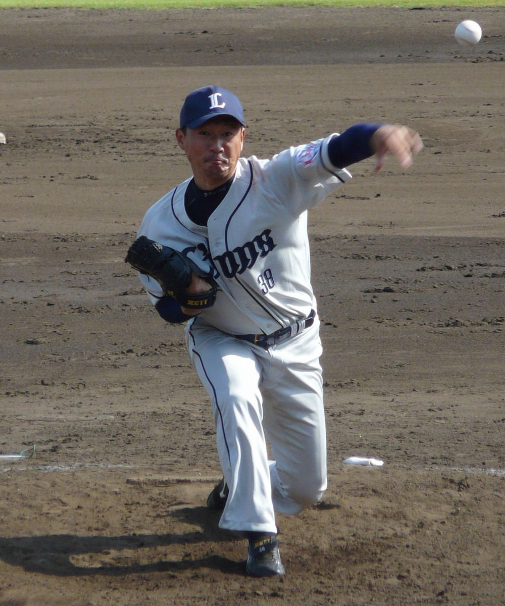 Yoshihiro Doi, pitcher of the Saitama Seibu Lions, at Yomiuri Giants Stadium.